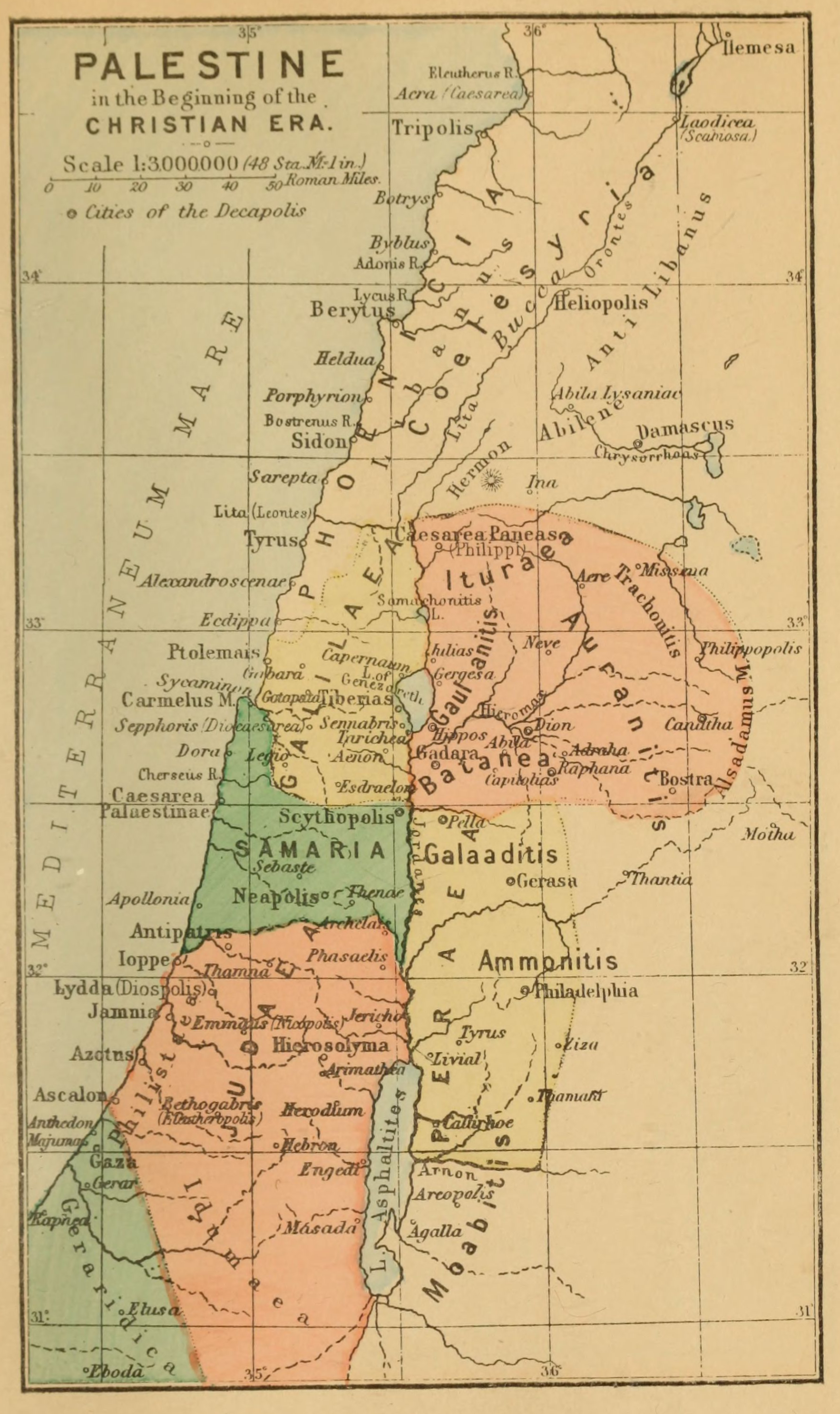 Scale: 1:3,000,000. From an 1889 book, Palestine, by Conder. Showing the Judean Tetrarchy, Decapolis and places.